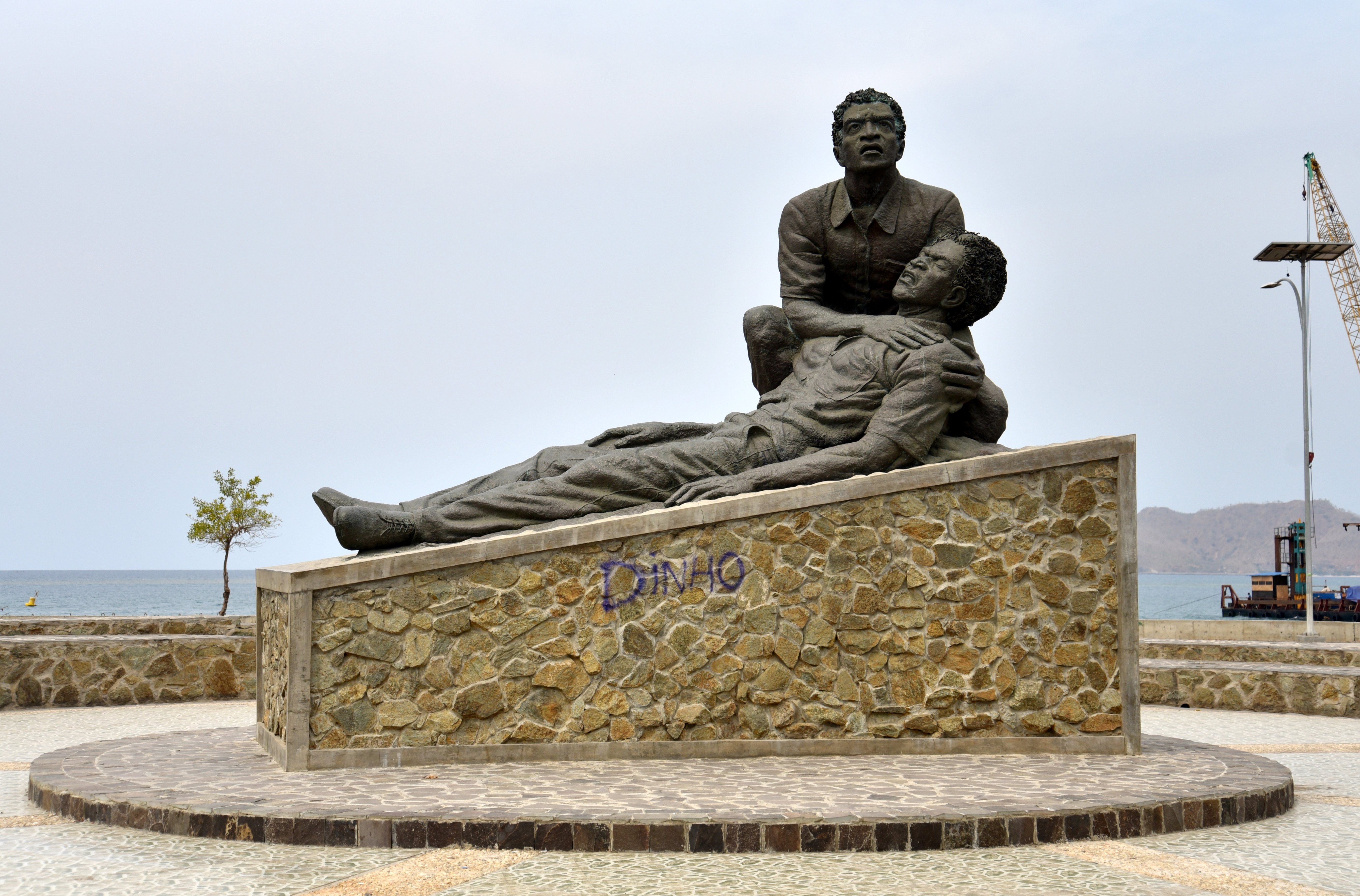 View of the Estátua da Juventude (Statue of Youth), a memorial to the Santa Cruz massacre, Dili, East Timor